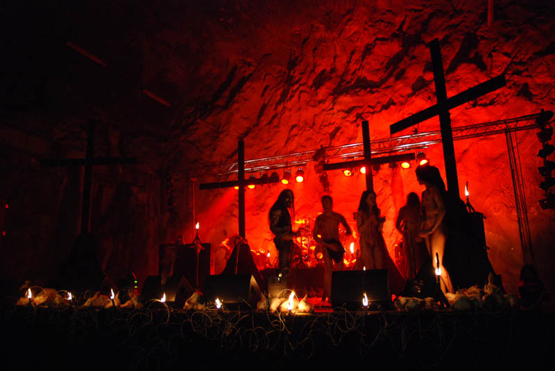 Gorgoroth - Carving a Giant video shoot